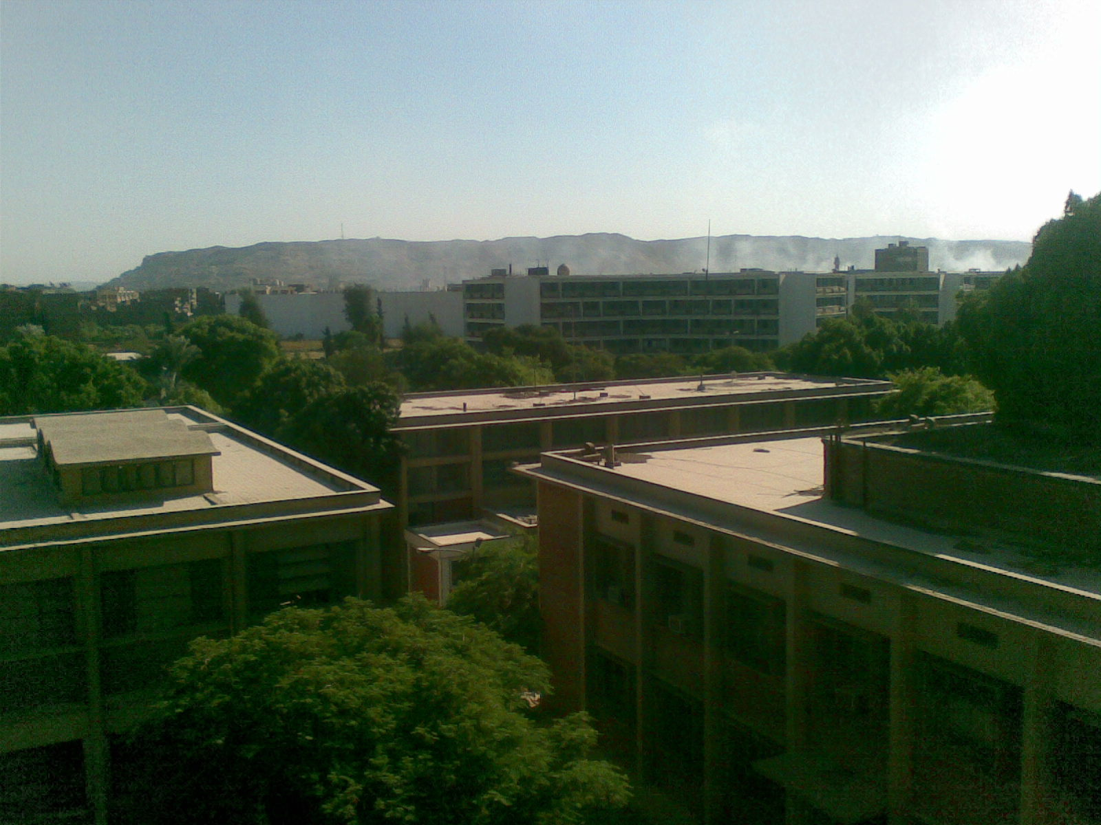 Faculty of Engineering , Assiut University